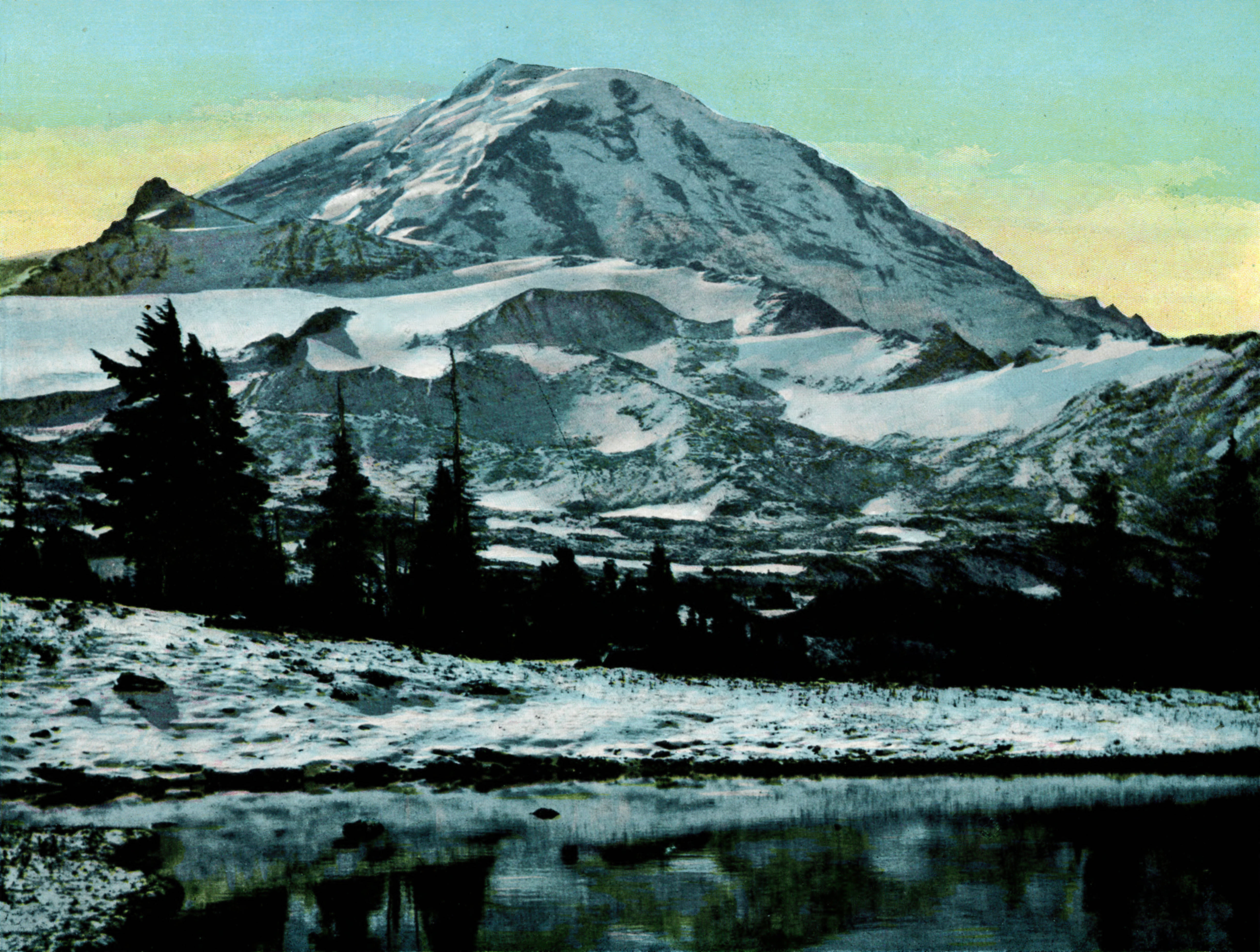 Mount Rainier, from Spray Park, 1908. From the materials for the Alaska-Yukon-Pacific Exposition of 1909, held in Seattle.